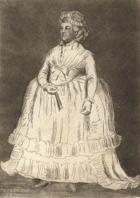 Portrait of Charles Bannister (1738-1804), English actor and singer, en travesti as Polly Peachum in the Beggar's Opera.